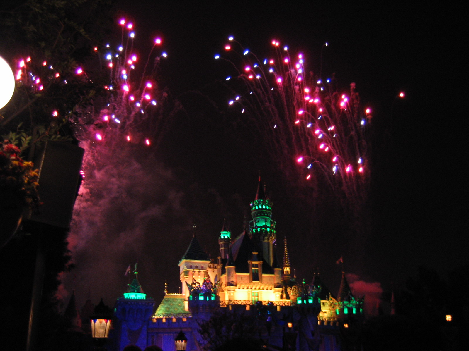 Presentation of Remember... Dreams Come True nighttime fireworks show at Disneyland in Anaheim, California, United States. Sleeping Beauty Castle is the subject of this photo.